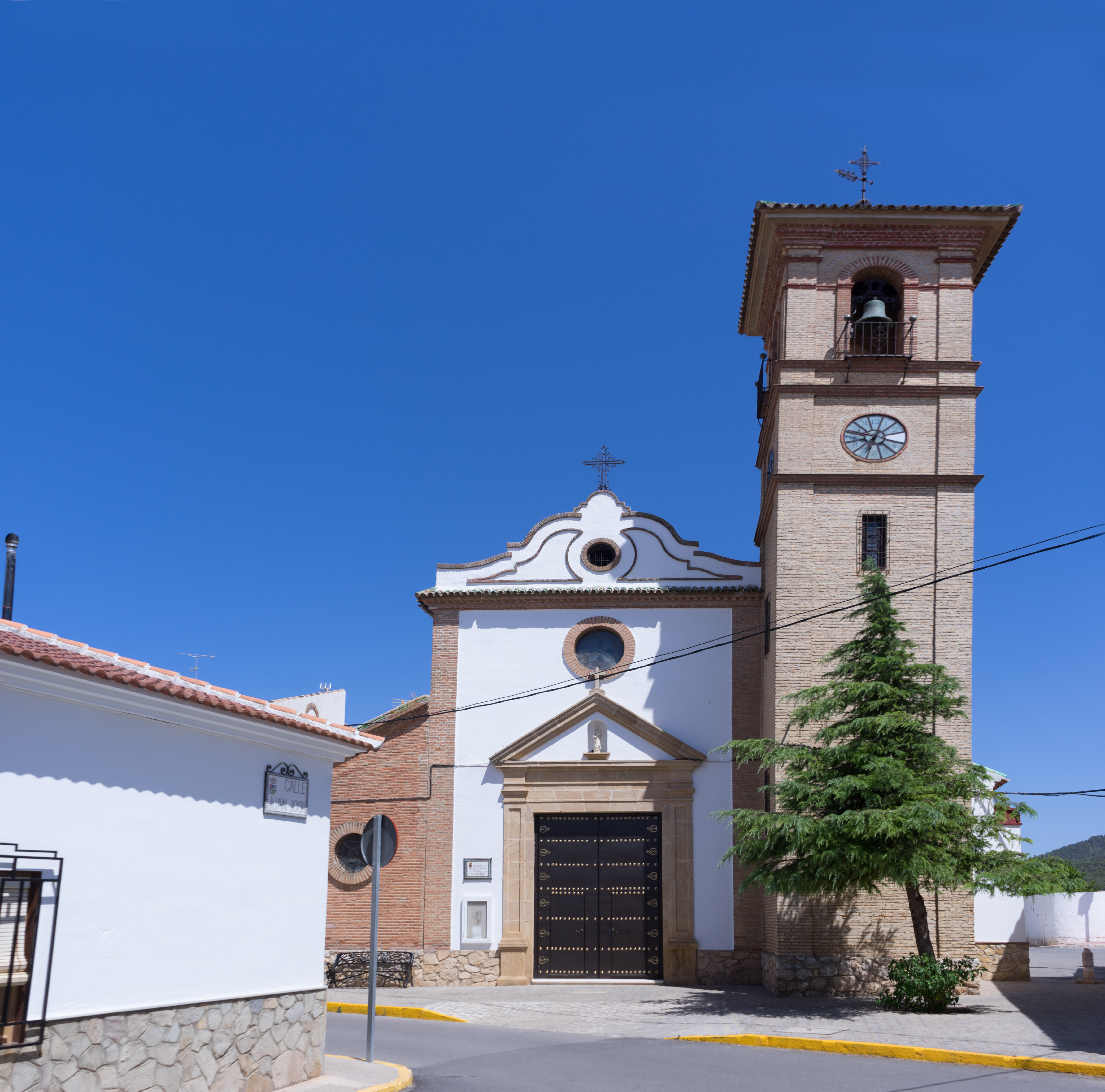 Front view of Church of Cristo de la Misericordia. Humilladero. Málaga